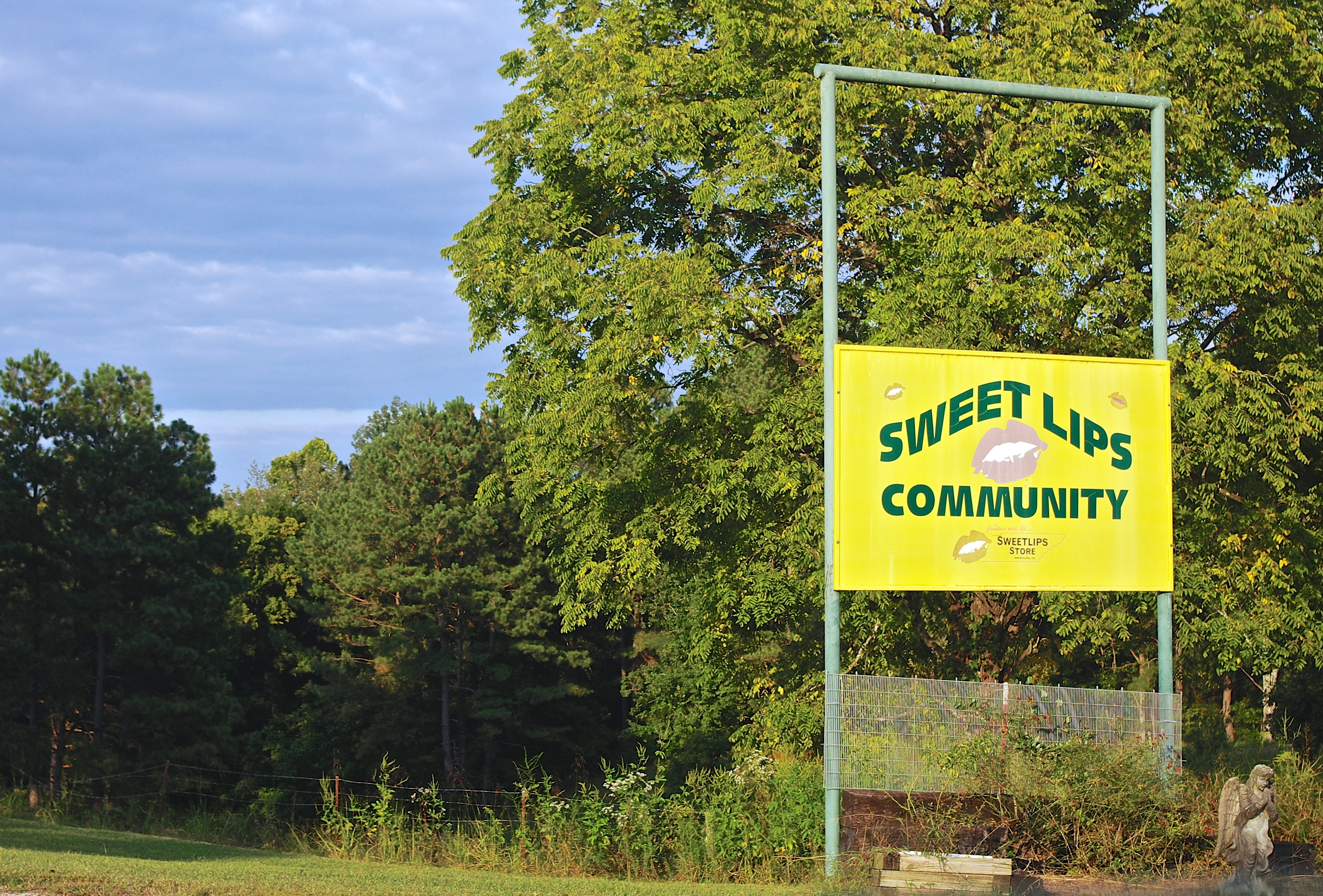 Sign in Sweet Lips, Tennessee, United States.